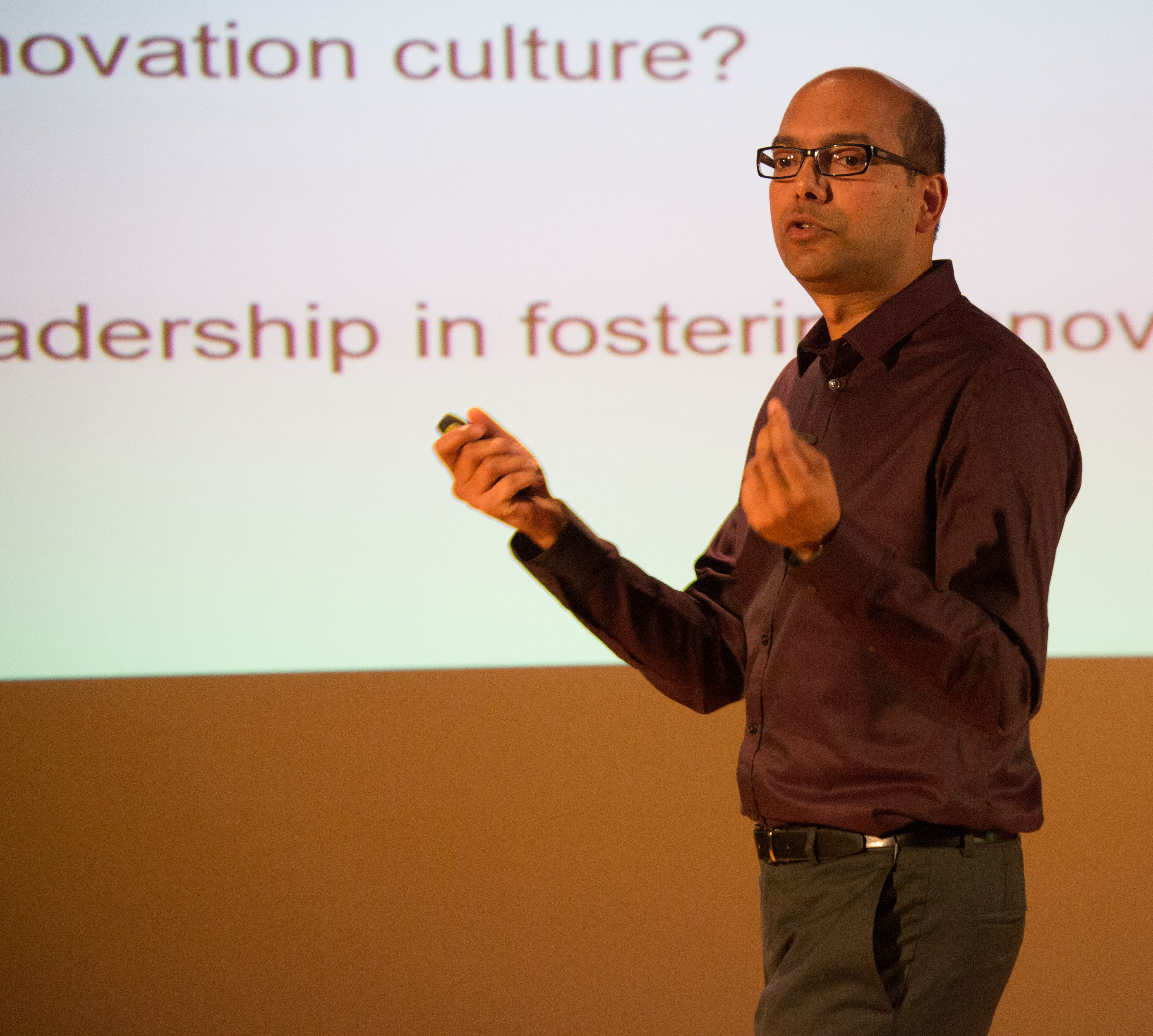 Prof. Jaideep Prabhu – Professor of Indian Business and Enterprise, Cambridge University, 2015. At Business of Software Europe conference, 2015